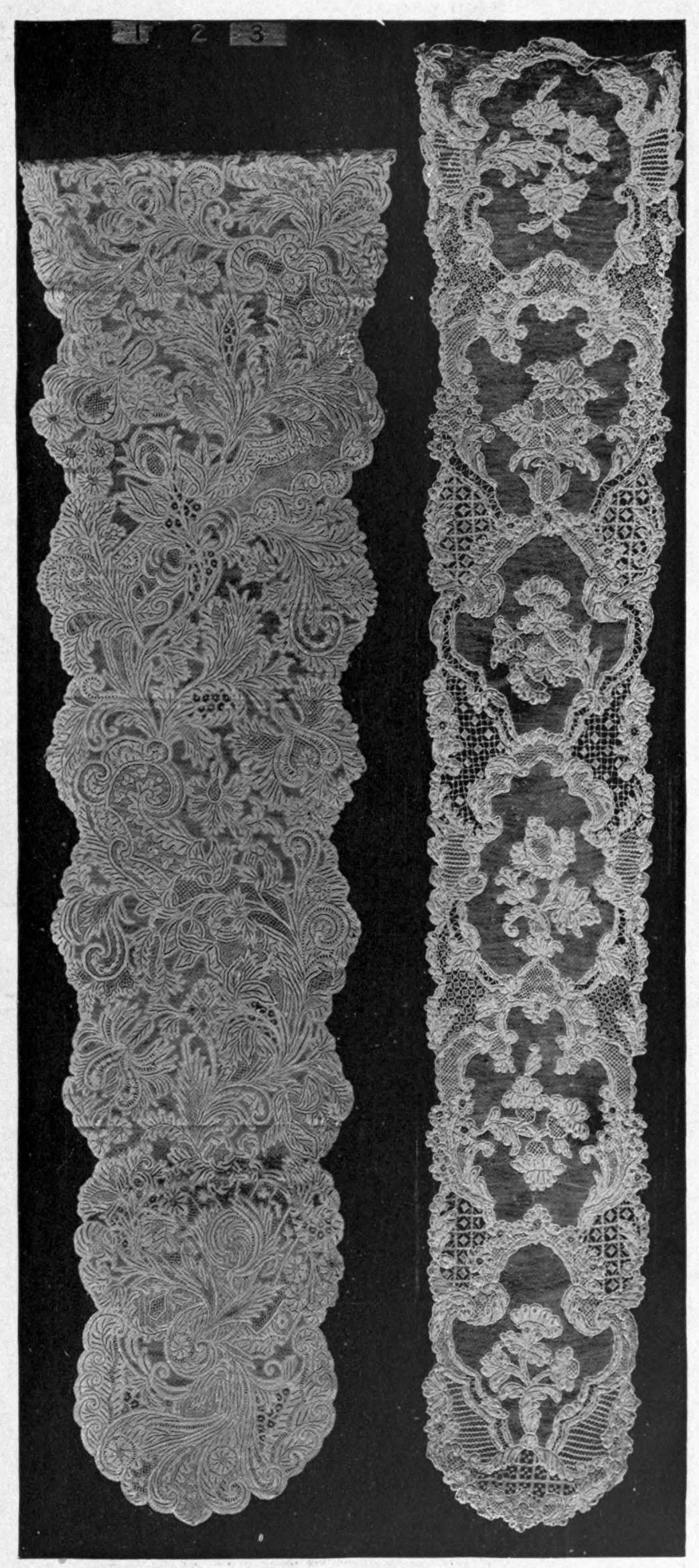 Fig. 20. (left).--A LAPPET OF "POINT DE VENISE À RÉSEAU." The conventional character of the pseudo-leaf and floral forms contrasts with that of the realistic designs of contemporary French laces. Italian. Early 18th century. (right).--A LAPPET OF FINE "POINT D'ALENÇON." Louis XV. period. The variety of the fillings of geometric design is particularly remarkable in this specimen, as is the button-hole stitched cordonnat or outline to the various ornamental forms. Illustration from 1911 Encyclopædia Britannica, article Lace.